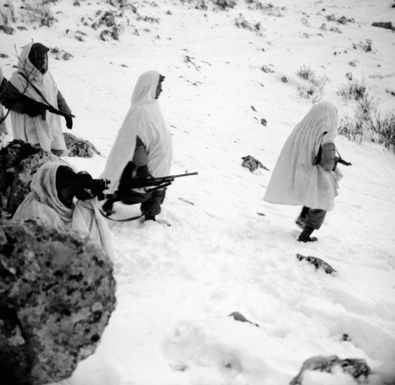 The Polish Army in the Italian Campaign, 1943-1945 Snow camouflage coated AFPU cameraman, Sergeant Eric Deeming, filming troops of the 2nd Coy., 1st Battalion, 1st Carpathian Rifles Brigade, 3rd Carpathian Rifles Division, returning from a patrol. Height 1210, north of Rionero in Vulture.